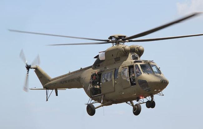 PAF W-3A Sokol